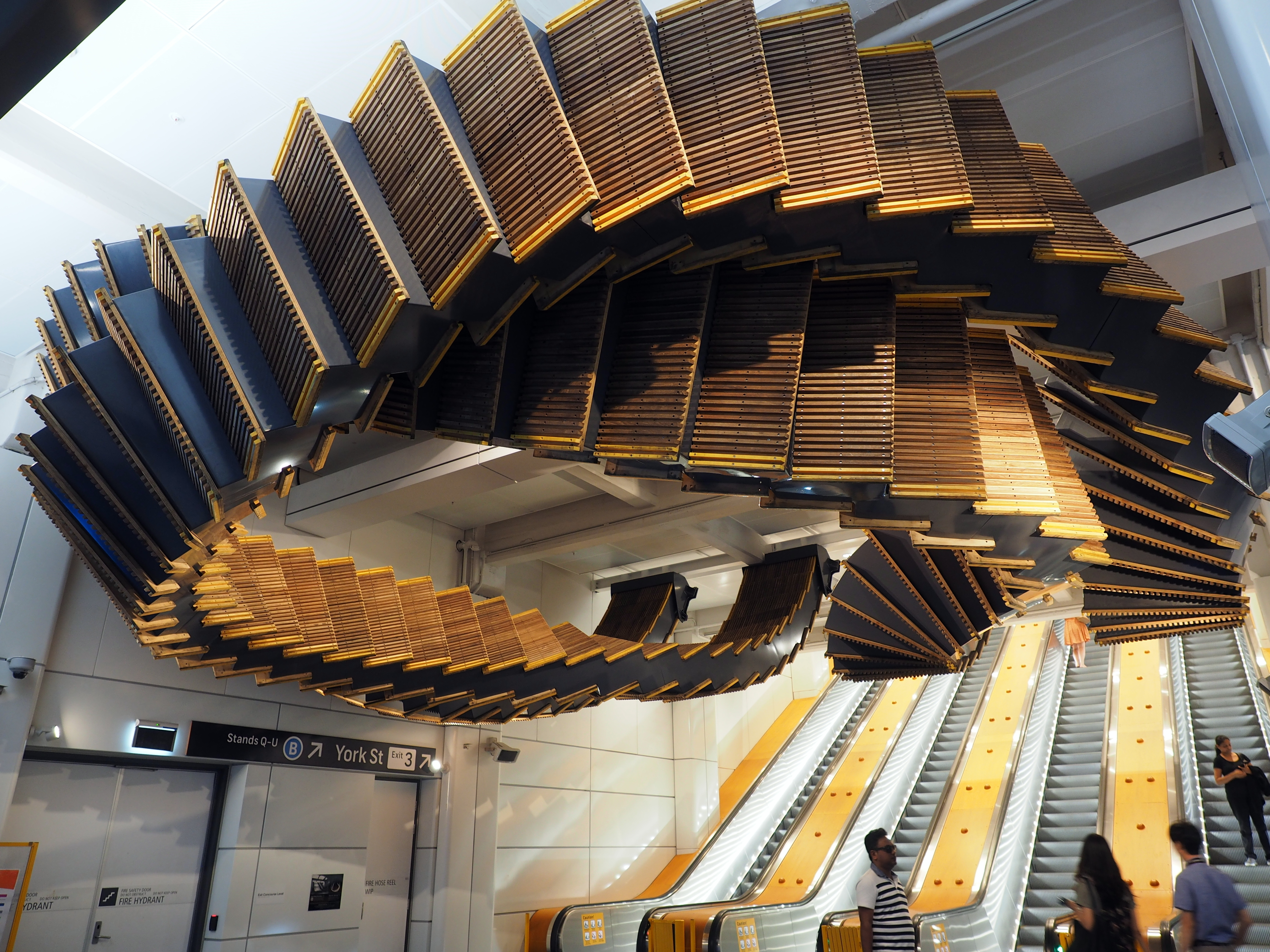 The artwork Interloop at Wynyard train station